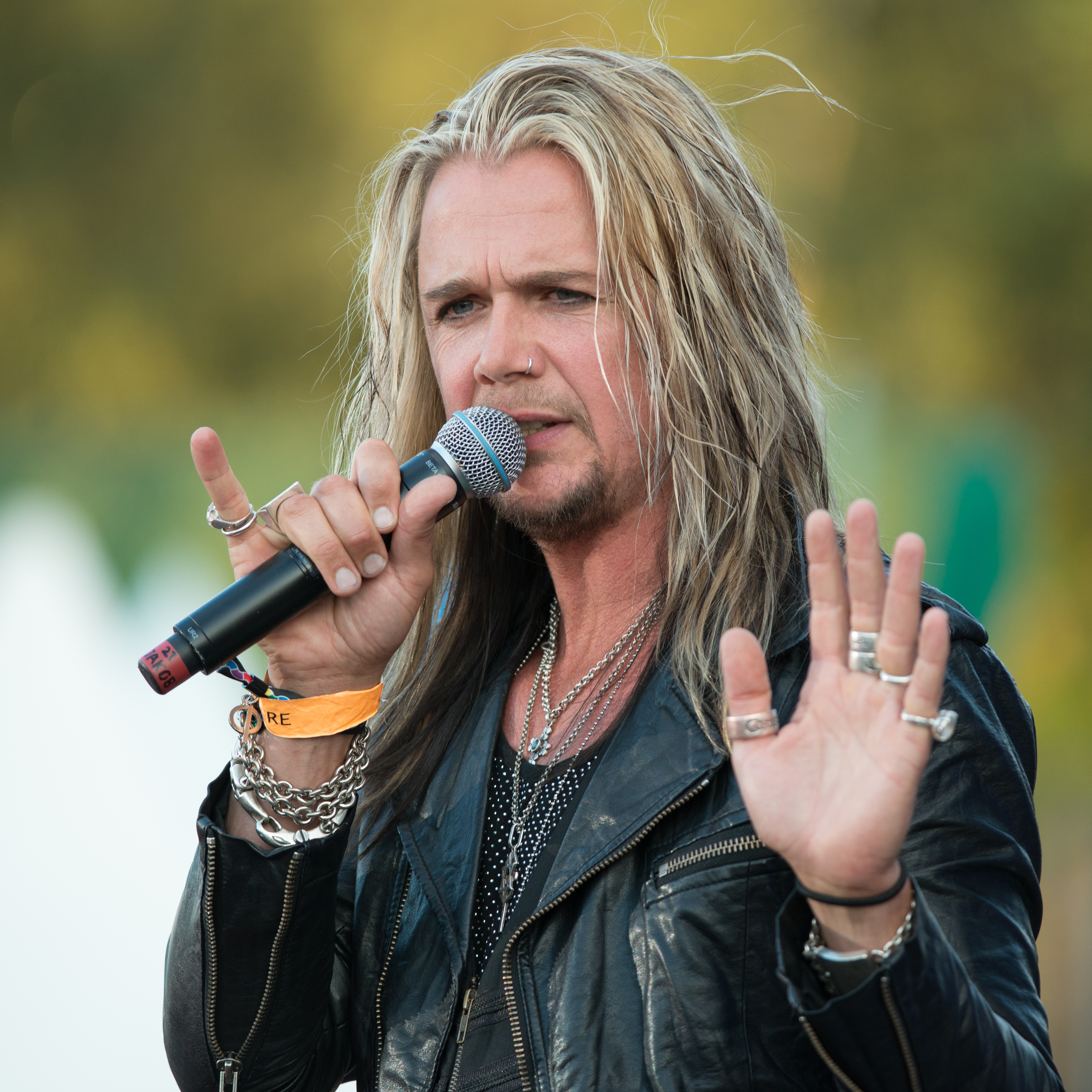 Jacob Samuel July 2014